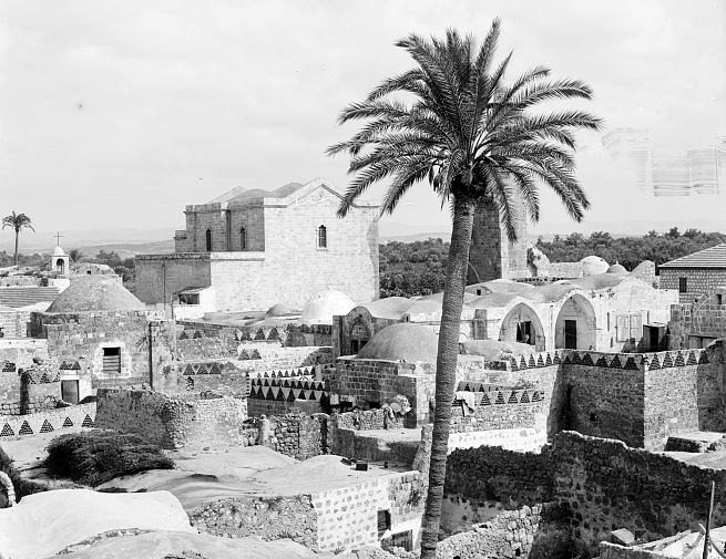 Rooftop view of Lydda and the Church of St George in the background